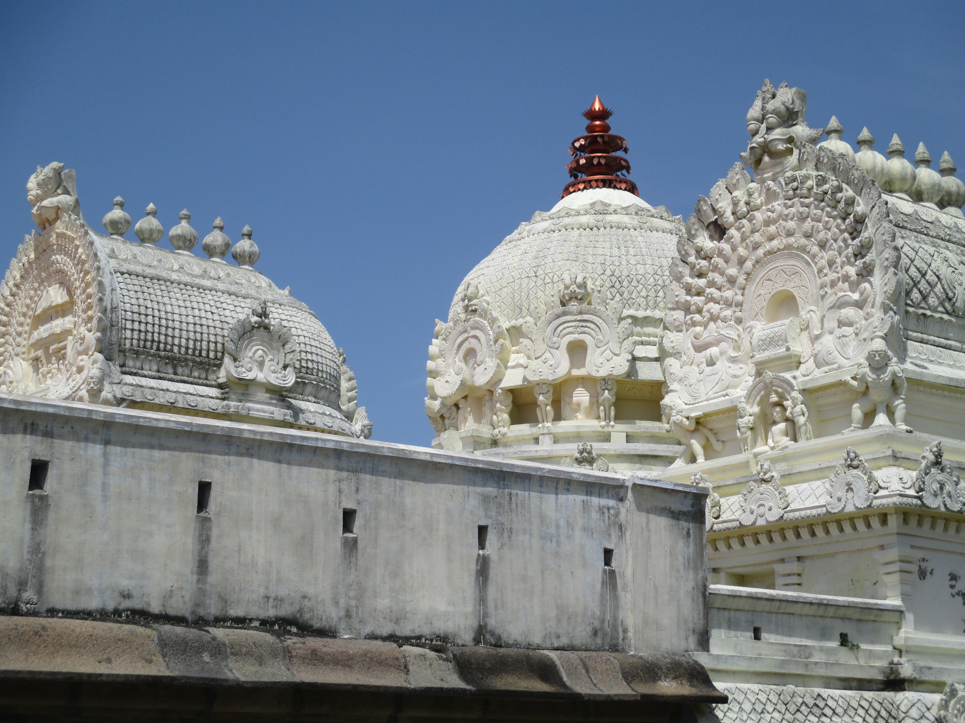 Tiruparuthikundram